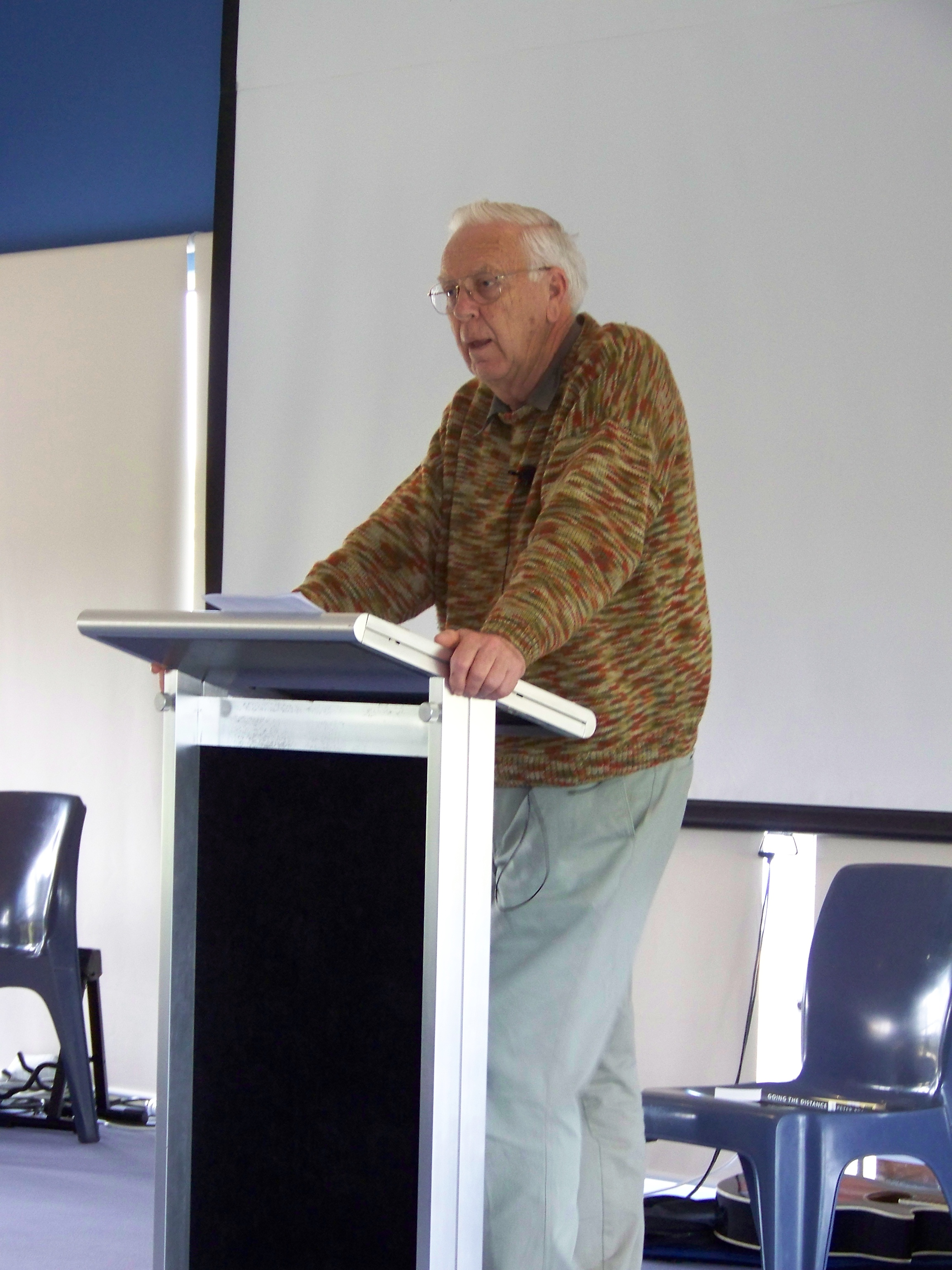 Allan Harman speaking at the Presbyterian Church of Victoria's Ministry Family Camp, Phillip Island, 2010.